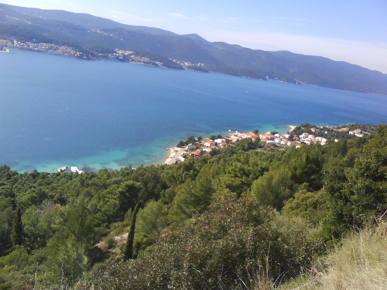 View on Perna from Podgorje